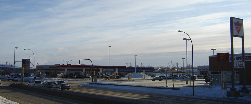 22nd Street Arterial Commercial District, Plaza 22 Strip Mall, Wikipedia:Canadian Tire, Wikipedia:Real Canadian Superstore, and Royal Square Strip Mall, Confederation Suburban Centre, Confederation SDA, Saskatoon, Saskatchewan, Canada